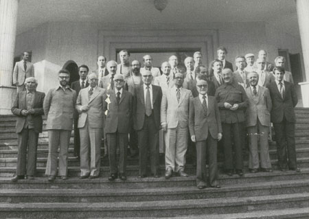 Mahdi Bazargan Iranian prime minister and his cabinet